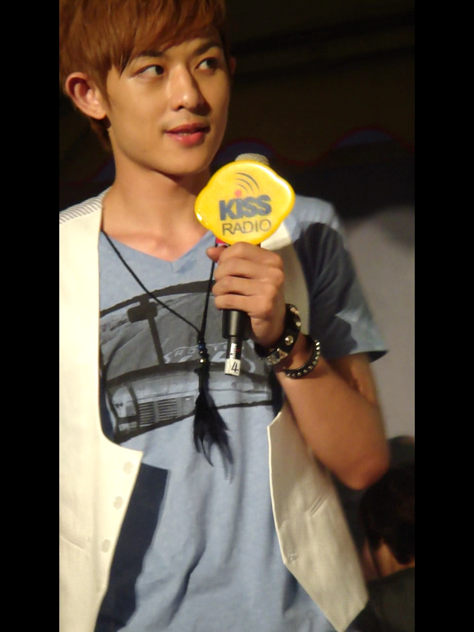 Owodog in Tainan, Taiwan on July 25, 2009, promoting I am LegendBân-lâm-gú: 2009-nî 7-gue̍h 25 Tâi-uân Tâi-lâm, Gô-khián(Tsng Hô-tsuân) tī Guá Sī Thuân-kî ián-tshiùnn-huē. 2009年7月25臺灣臺南，敖犬（莊濠全）佇「我是傳奇」演唱會。